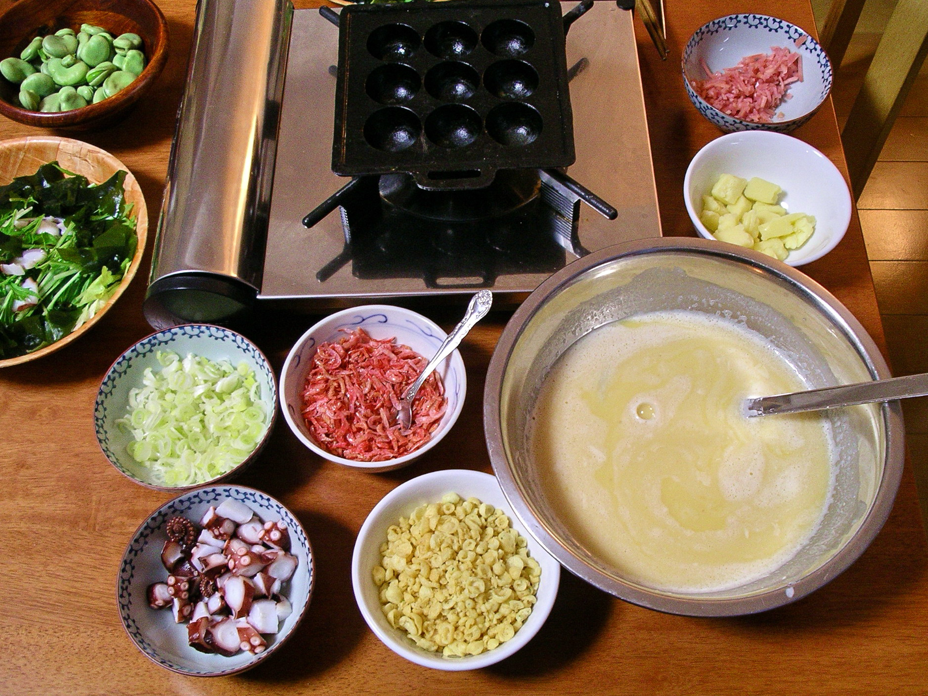 Ingredients for takoyaki. Explanation here: Blue Lotus.